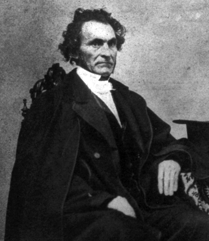 George J. Adams, member of the Latter Day Saint movement's Council of Fifty and founder of the Church of the Messiah (George J. Adams). Illus. in: New England Magazine, 1907 April, p. 199.